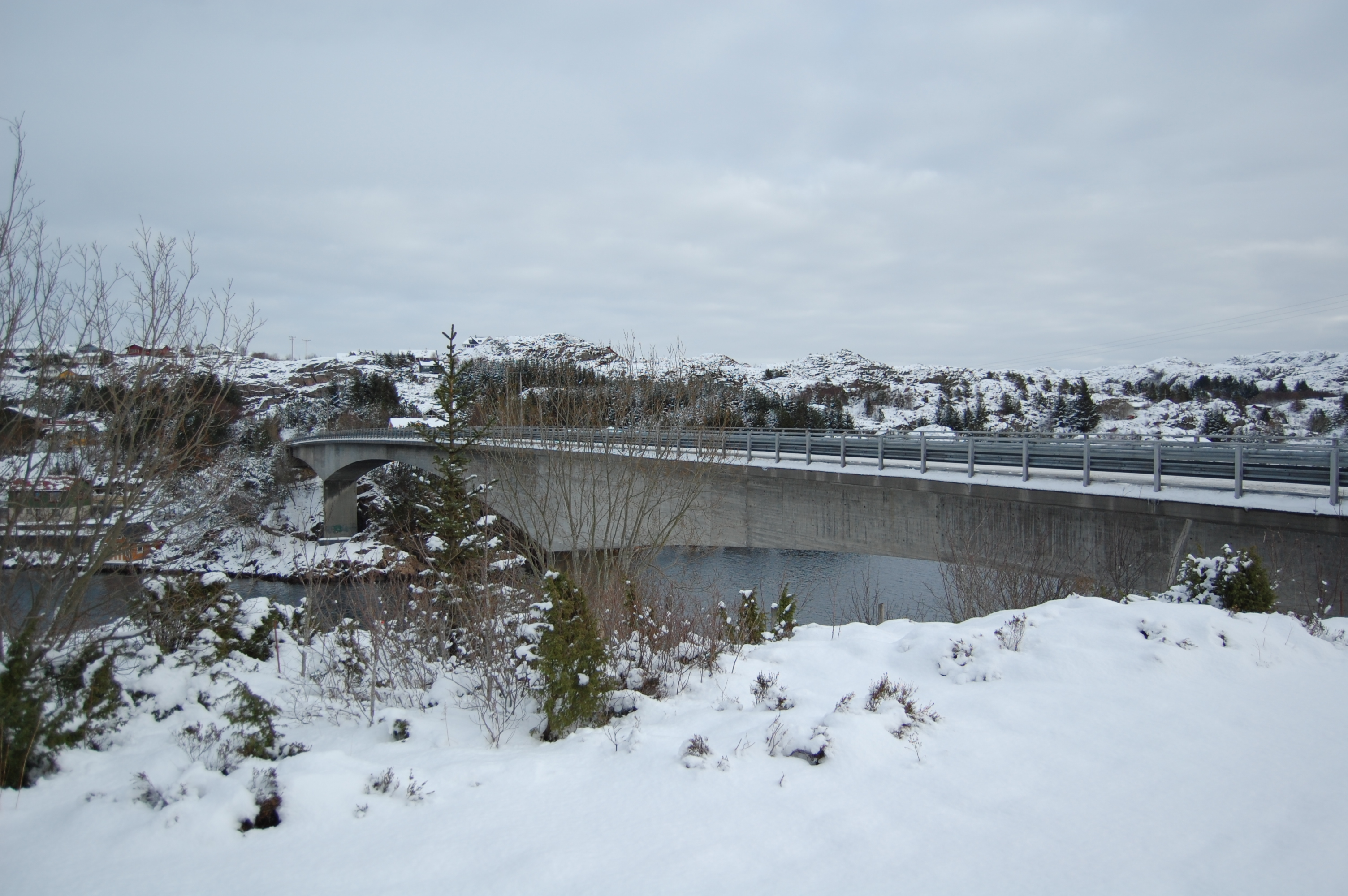 The bridge connecting the islands of Sotra and Langøyna.